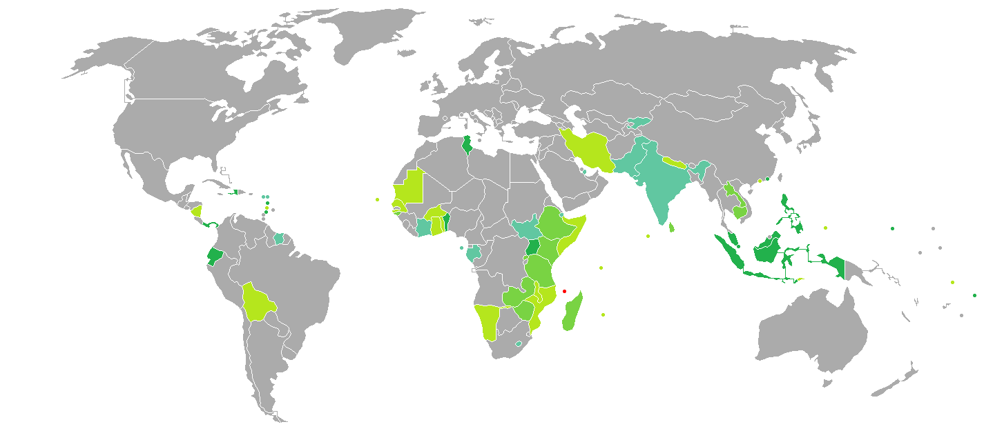 Visa requirements for Comorian citizens Comoros Visa free access Visa on arrival eVisa Visa available both on arrival or online Visa required